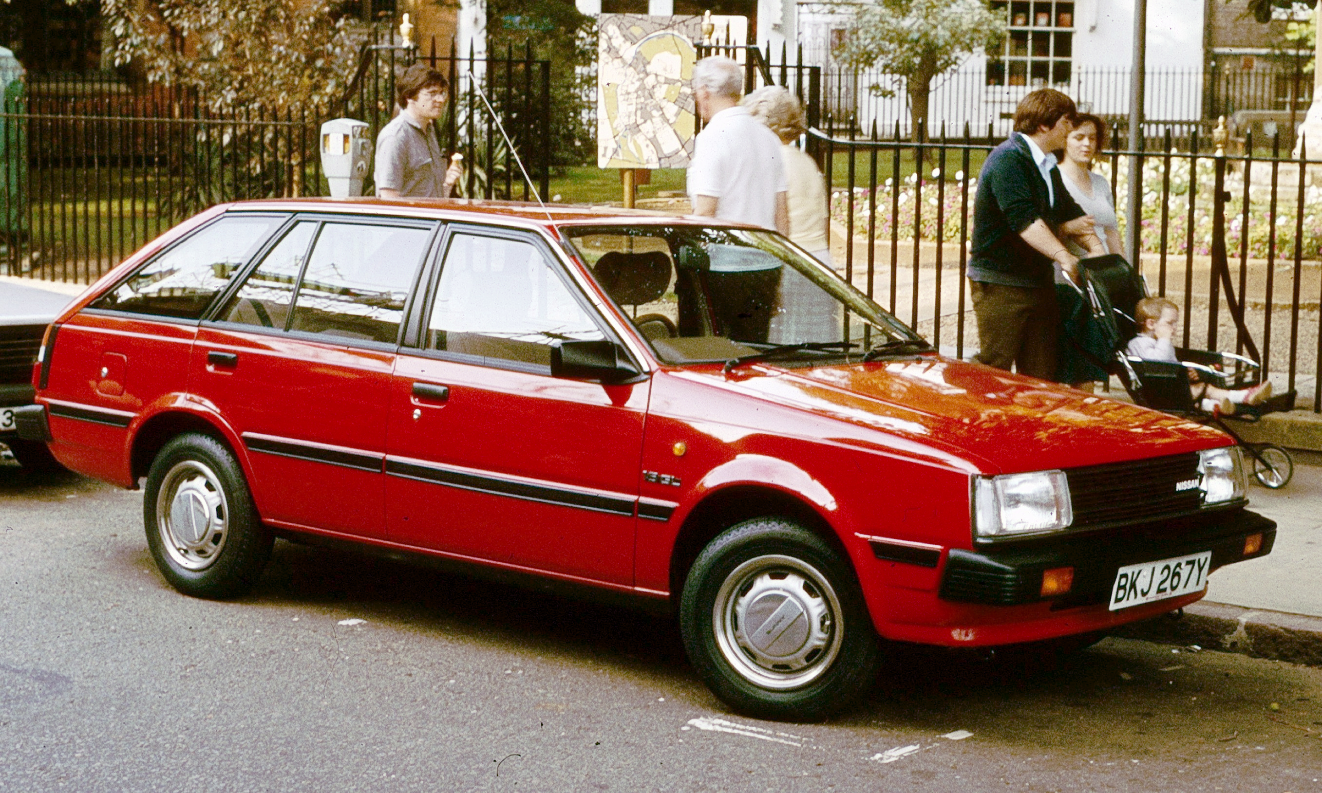 Datsun/Nissan Sunny Estate 1.5 GL 1982. Off the road since 1996. Photographed in Trinity Street, Cambridge before they blocked it off (except to taxis and killer cyclists)) and removed the parking facilities. The white building in the background was the Cambridge Music Shop, I think. When I came back twenty years later it had become a sort of yuppy coffee shop, but I think that's gone too now